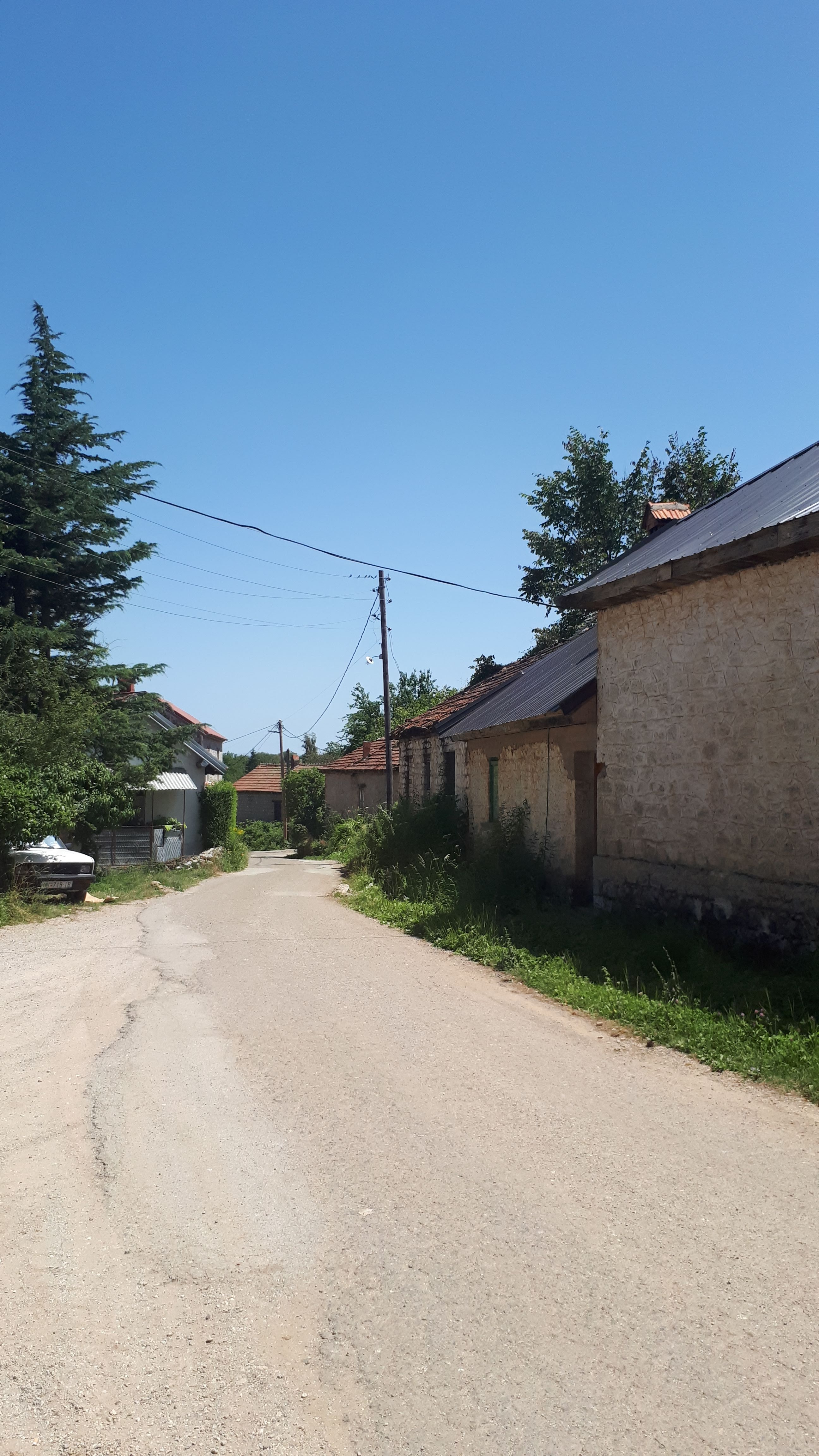 Street in the village Višni